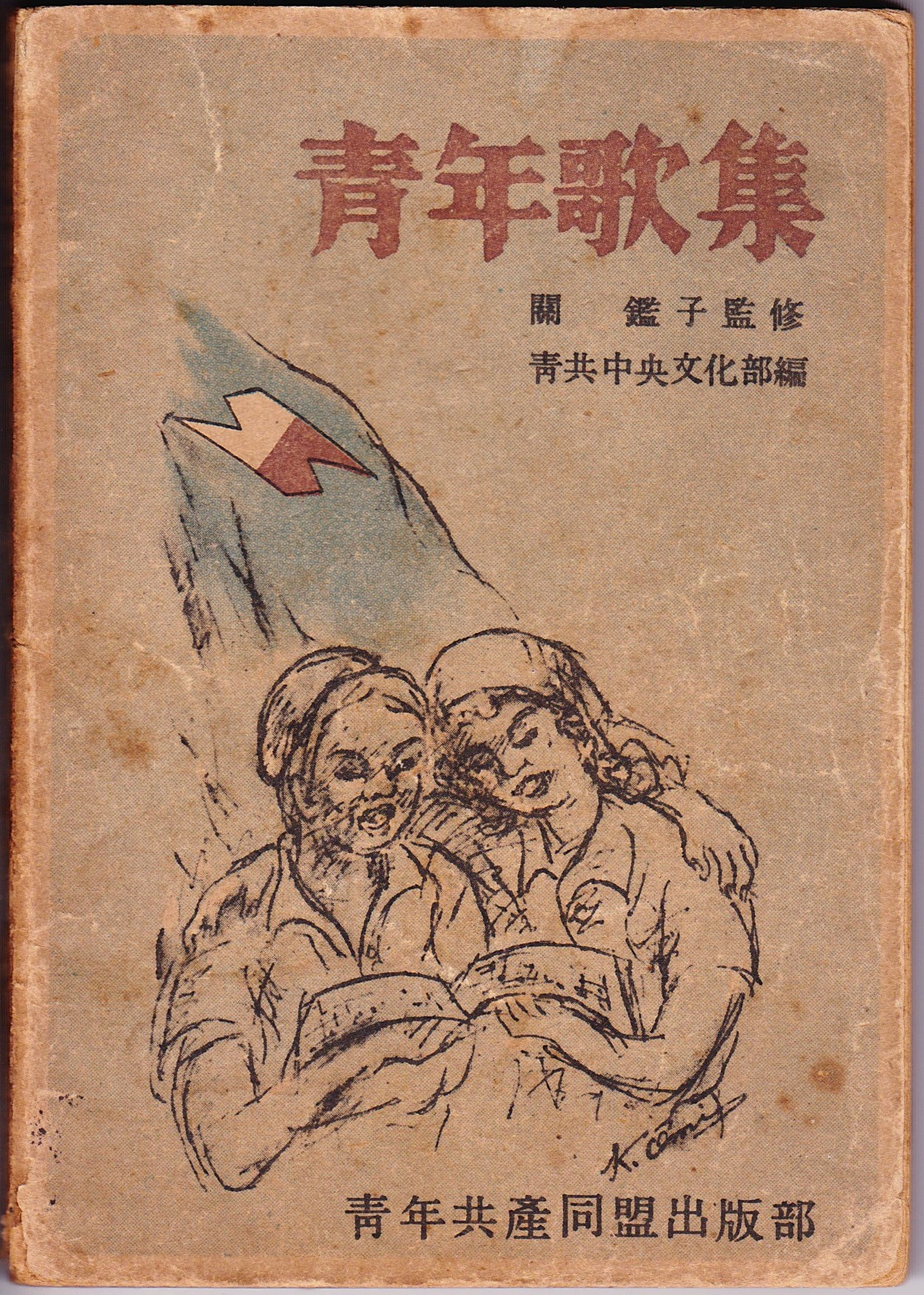 Book cover of Seinenkasyu